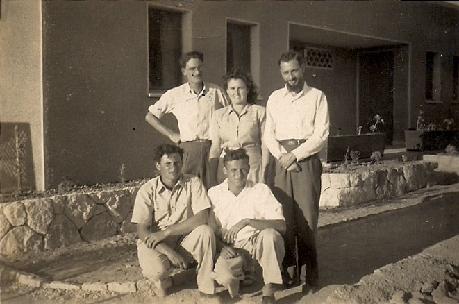 Moshe Jakobovits and his family-1947